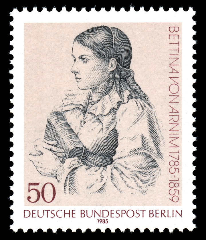 Deutsche Bundespost Berlin stamp stamp; image by Ludwig Emil Grimm.